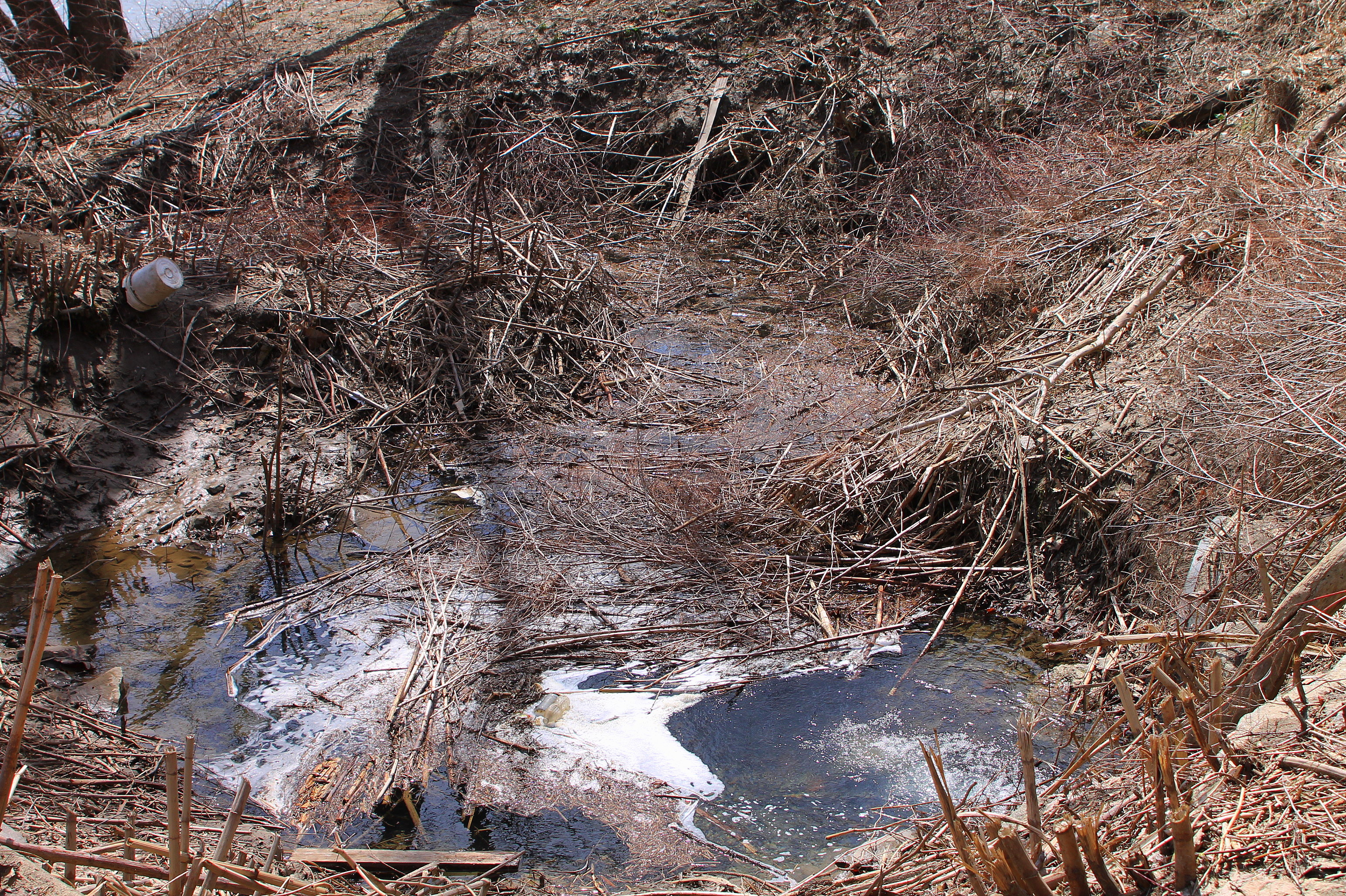 Paddy Run near its mouth. To the right is the outflow of the pipe that carries it under the Susquehanna Warrior Trail. To the left is its mouth at the Susquehanna River.